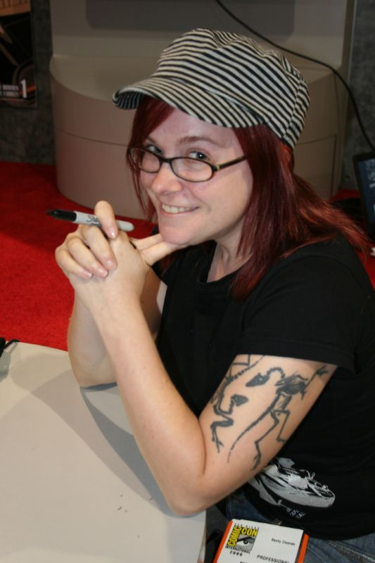 Becky Cloonan, American comic book creator known for her manga-influenced artwork and extreme prolificacy.